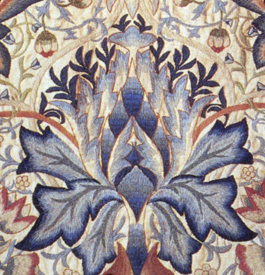 Detail of Art Needlework embroidery "Artichoke" in wool on linen, designed by William Morris for Ada Phoebe Godman in 1877 and subsequently available from Morris and Company. (See Linda Parry, William Morris Textiles, New York, Viking Press, 1983, p. 20-21.)